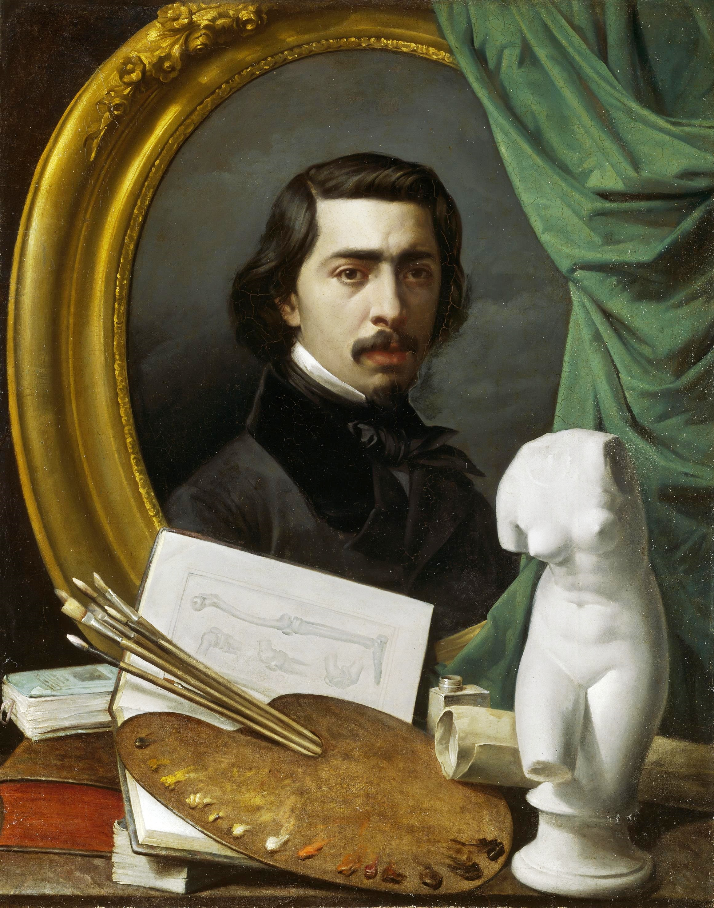 Autoportrait by Carlos Esquivel y Rivas (oil on canvas, 92 × 73,5 cm, 1856).